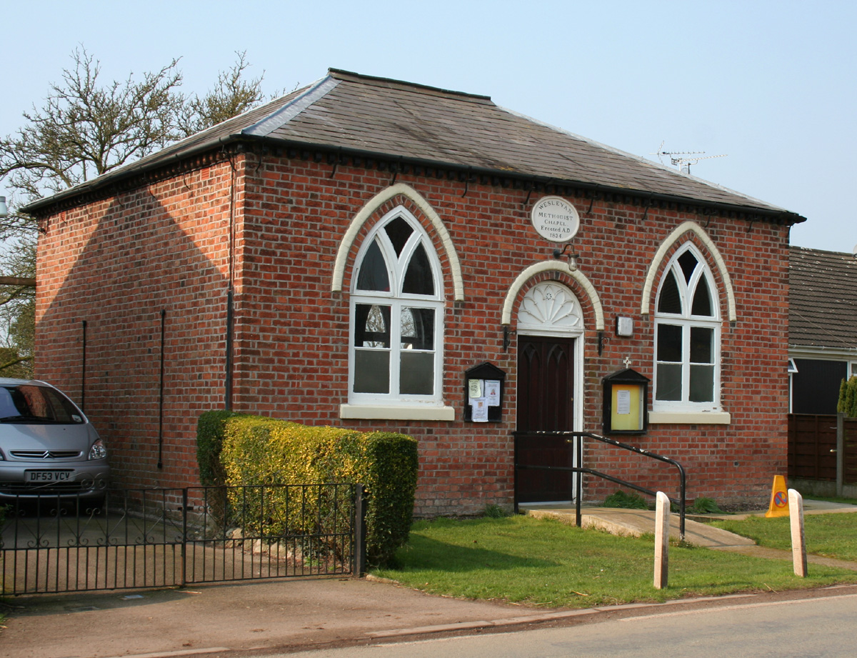 Poole Wesleyan Methodist chapel, Poole, near Nantwich, Cheshire, seen from the east